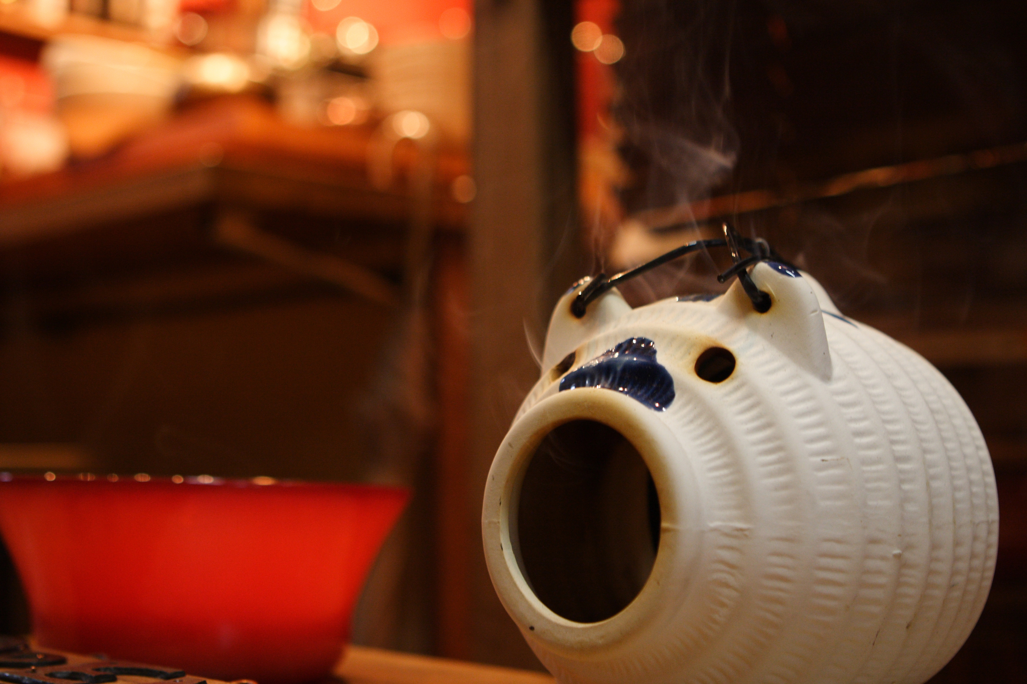 kayaributa. Set mosquito coil inside the pig shaped ceramic.